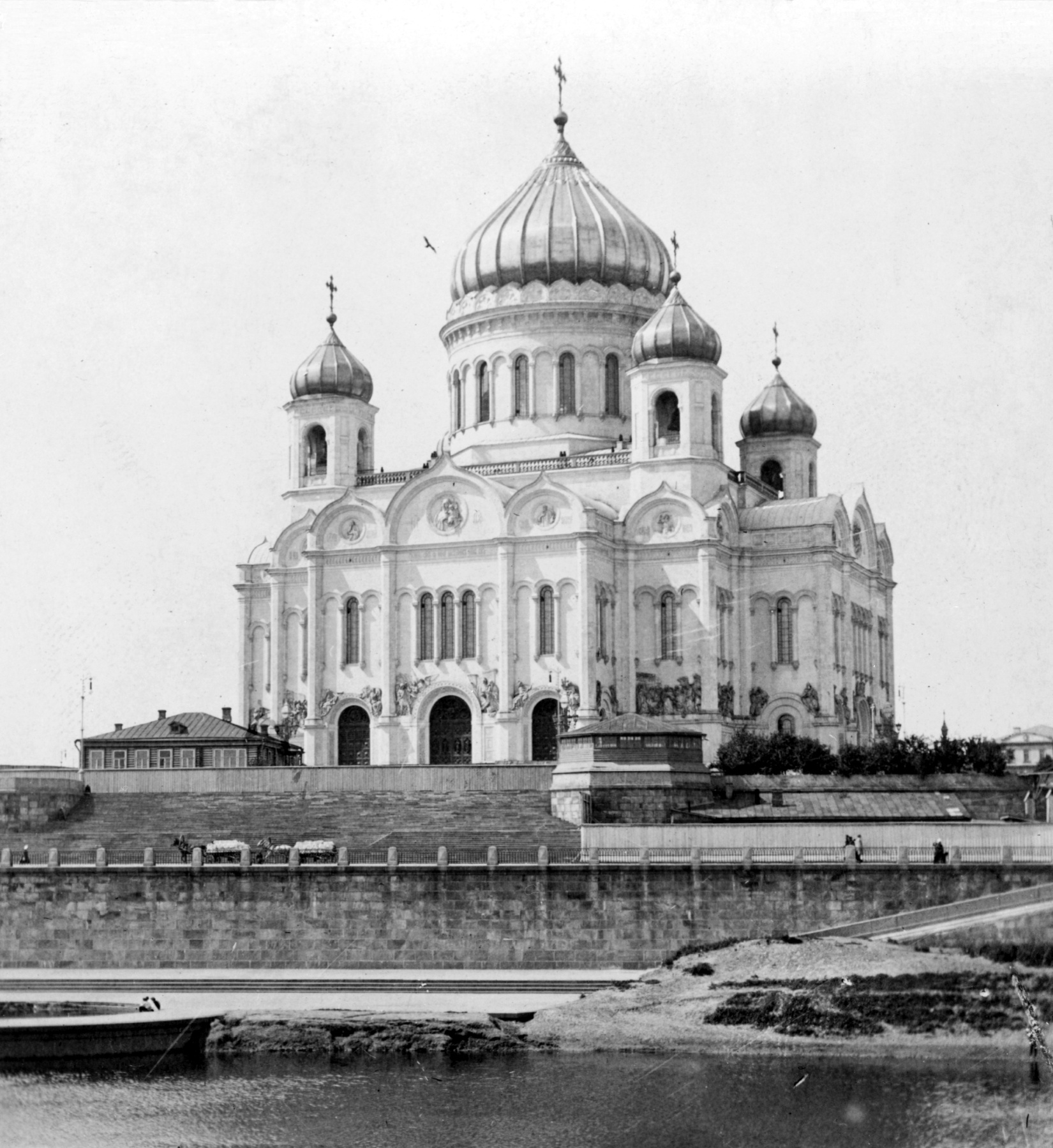 Stereograph of the Cathedral of Christ the Saviour in Moscow, Russia